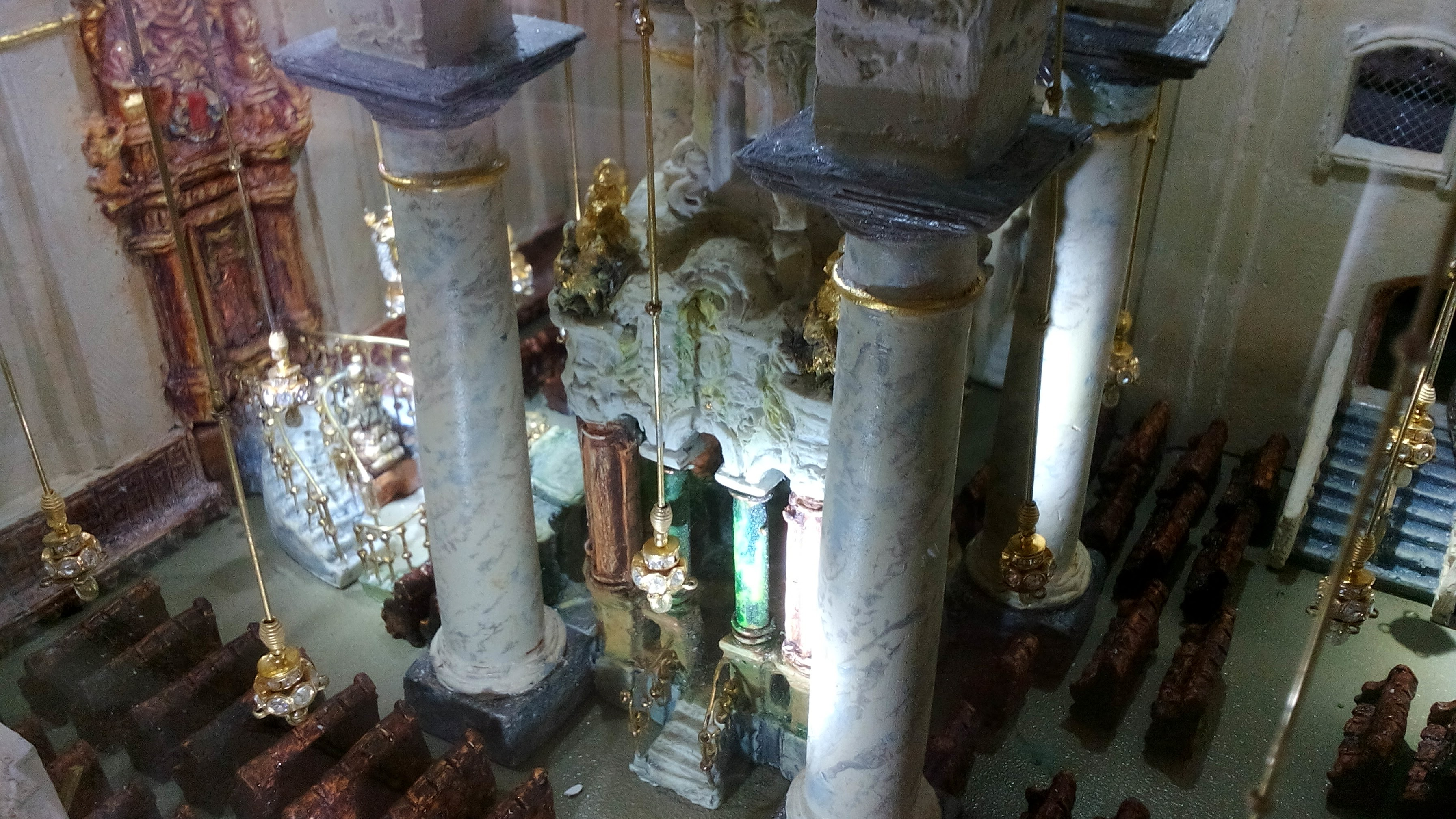 Model of the Great Synagogue of Vilna, Vilnius, Lithuania, interior, 13x21x22,5 cm, plastics, 2018